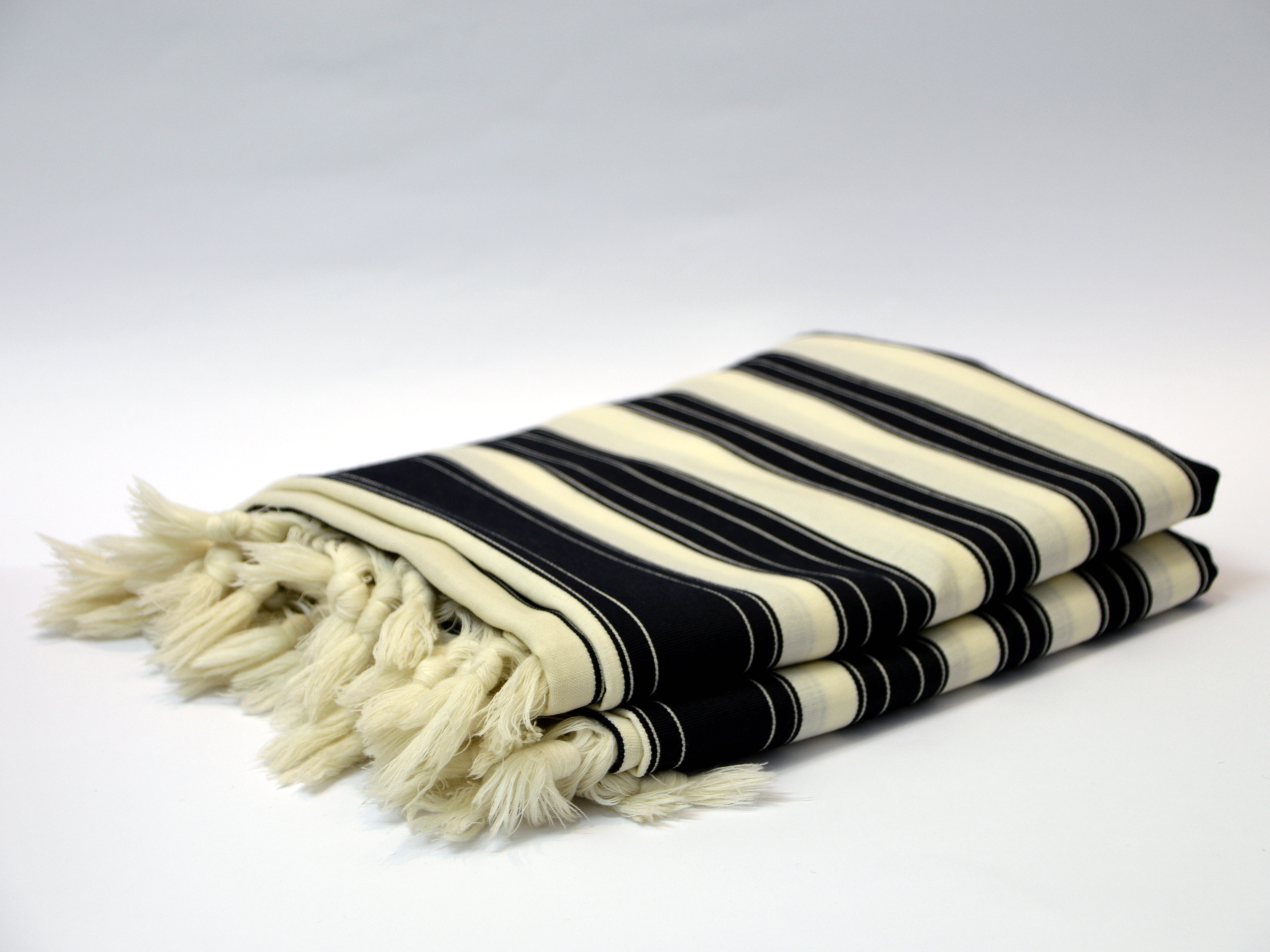 A tallit